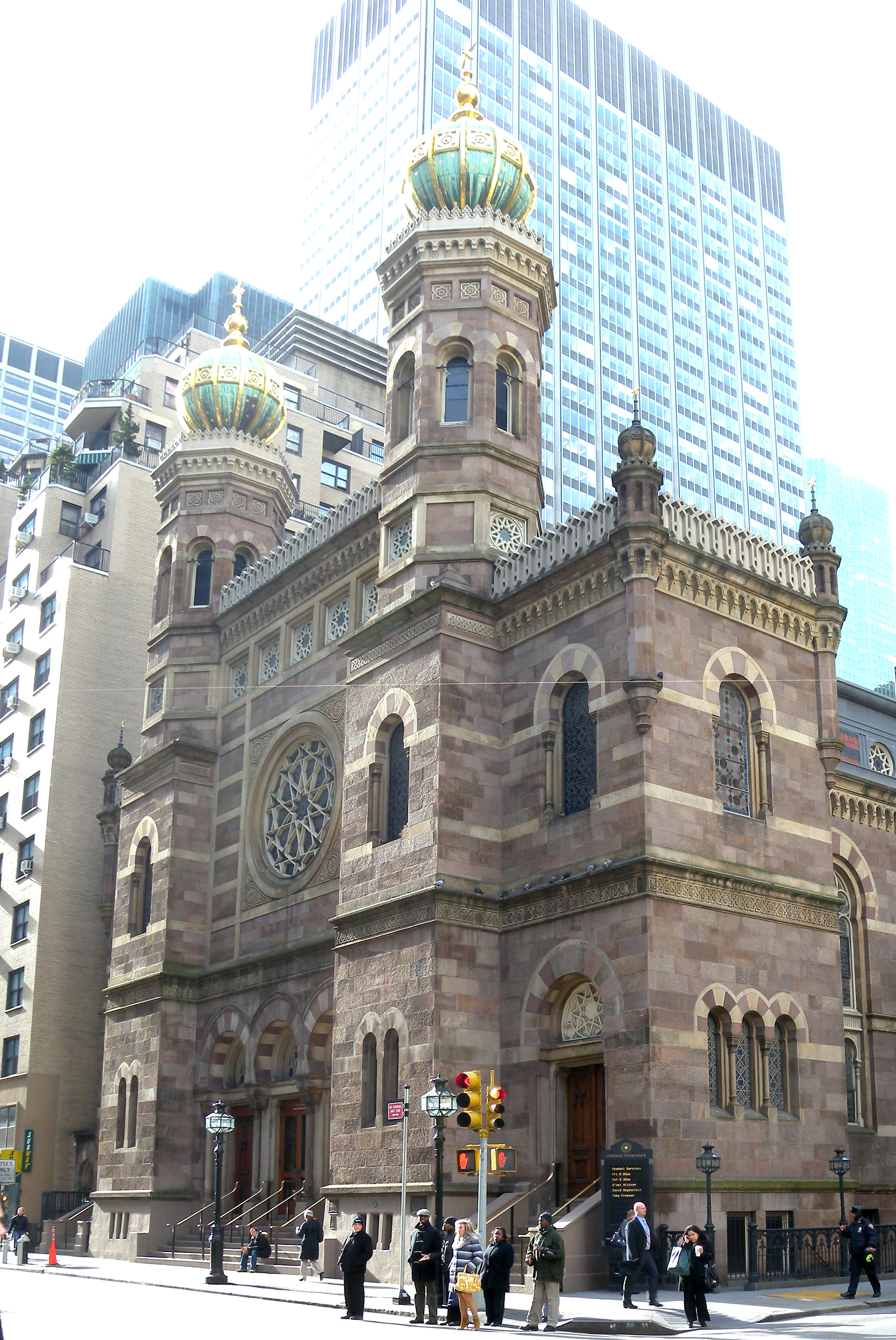 Looking west across Lex and 55th at Central Synagogue on a mostly cloudy early afternoon.